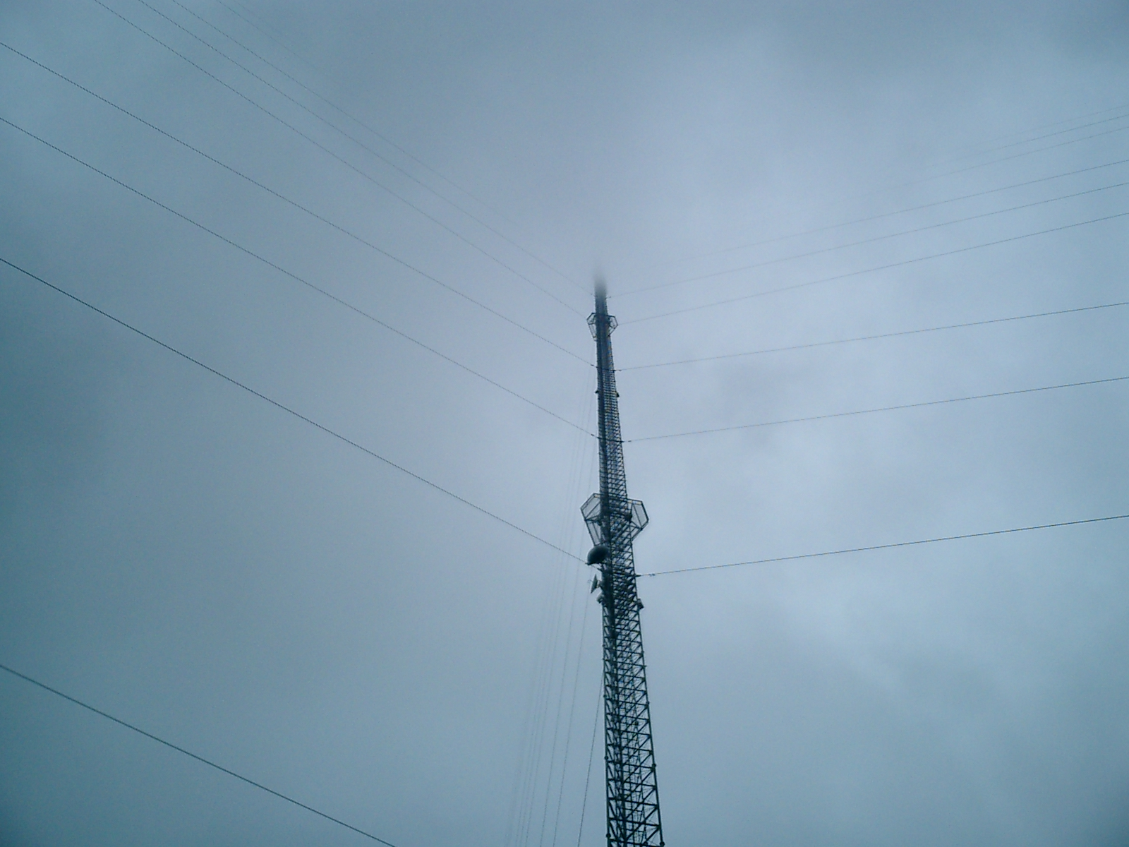 WCTV Tower From 400' to 1100' disappearing into the clouds. Manufactured by Kline Iron and Steel stacked in 1987.